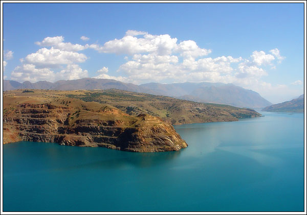 Oʻzbekcha/ўзбекча: Category:Suratlar: Chorbog` Category:Suratlar:Medvezhutka